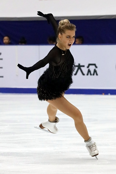 Elena Radinova at the Cup of China 2016